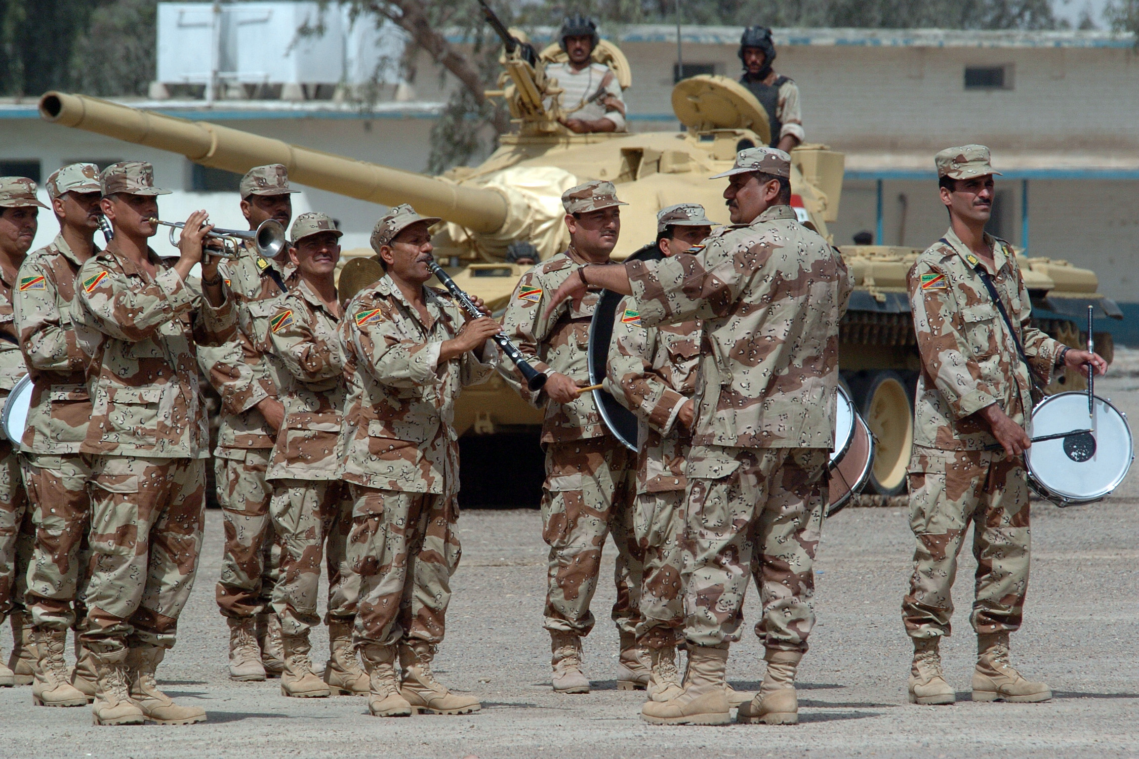 The Iraqi army band performs during a change of command ceremony at Camp Taji, Iraq, May 15, 2006. The Iraqi army 2nd Brigade, 9th Mechanized Division is assuming the command of the Sabeaa Al-Boor and Hora Al-Bash battlespace from U.S. Army Soldiers with 7th Squadron, 10th Cavalry, 1st Brigade, 4th Infantry Division. The Iraqi soldiers will take the lead and conduct their own counterinsurgency operations in this battlespace.